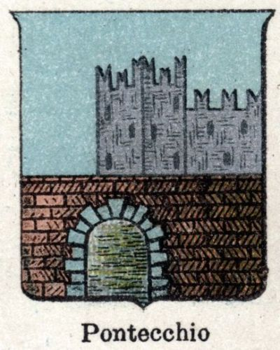 historical (1875) comunal logo of Pontecchio ,Italy